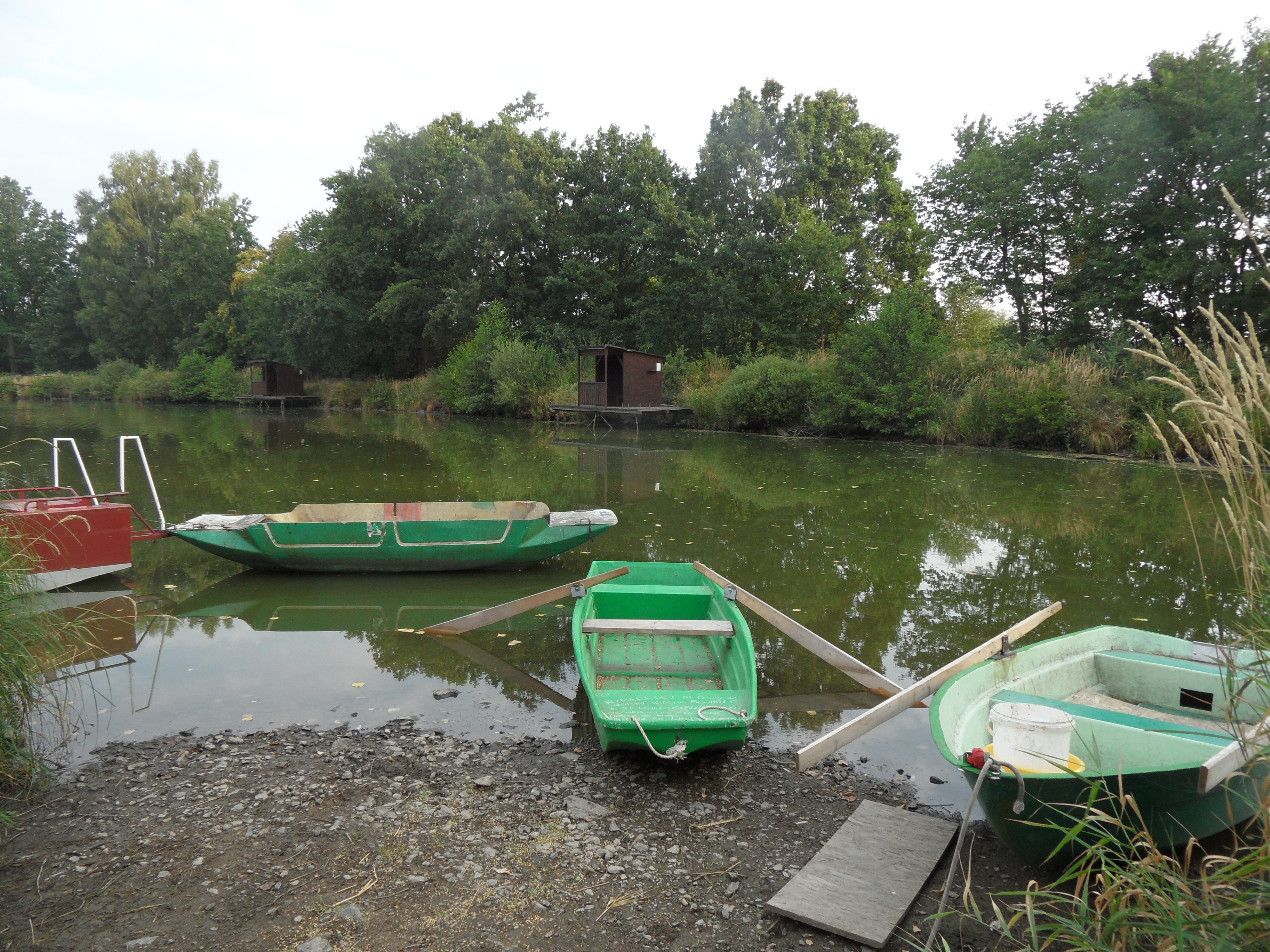 Svěcený Pond A. Small Boats Near North-East Bank. Kutná Hora District, the Czech Republic.